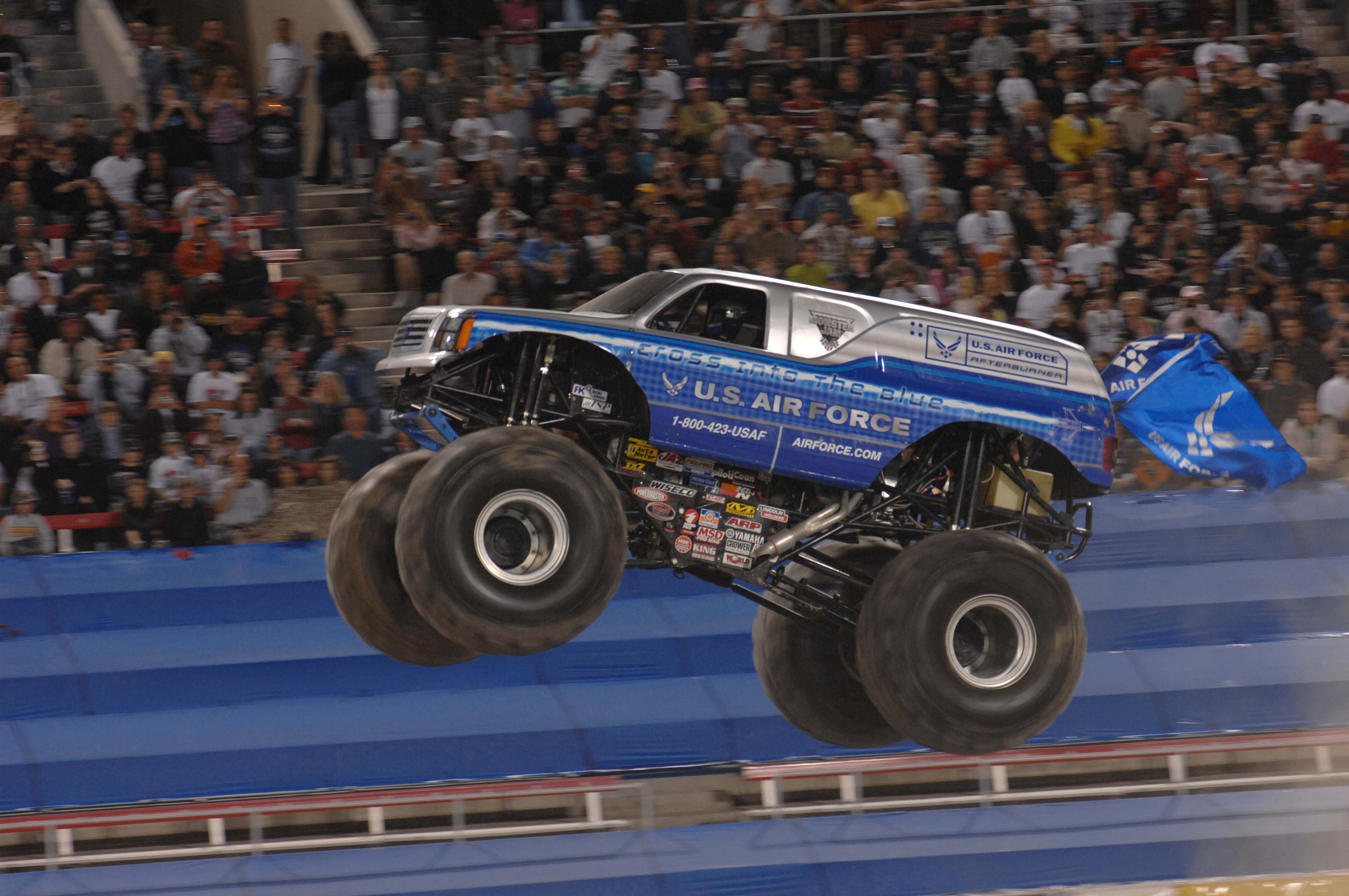 Damon Bradshaw drives the U.S. Air Force monster truck Afterburner during the Monster Jam World Finals in Las Vegas, Nev., March 29, 2008.